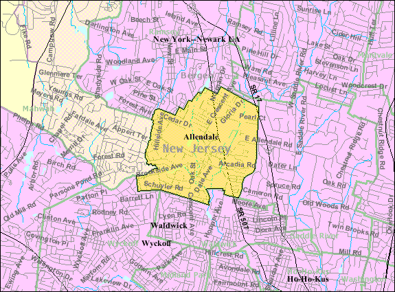 U.S. Census Bureau map of Allendale